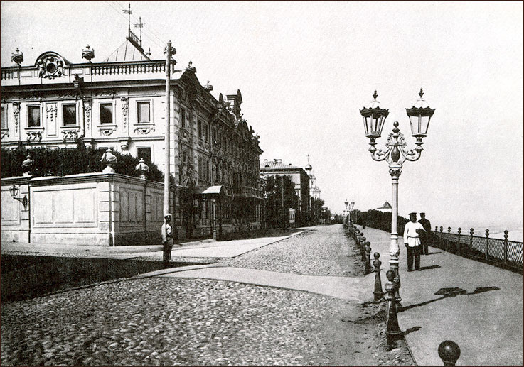 The former mansion of Sergey Rukavishnikov, now the Hystorical Museum. Verkhnevolzhskaya embankment, 7, Nizhny Novgorod.